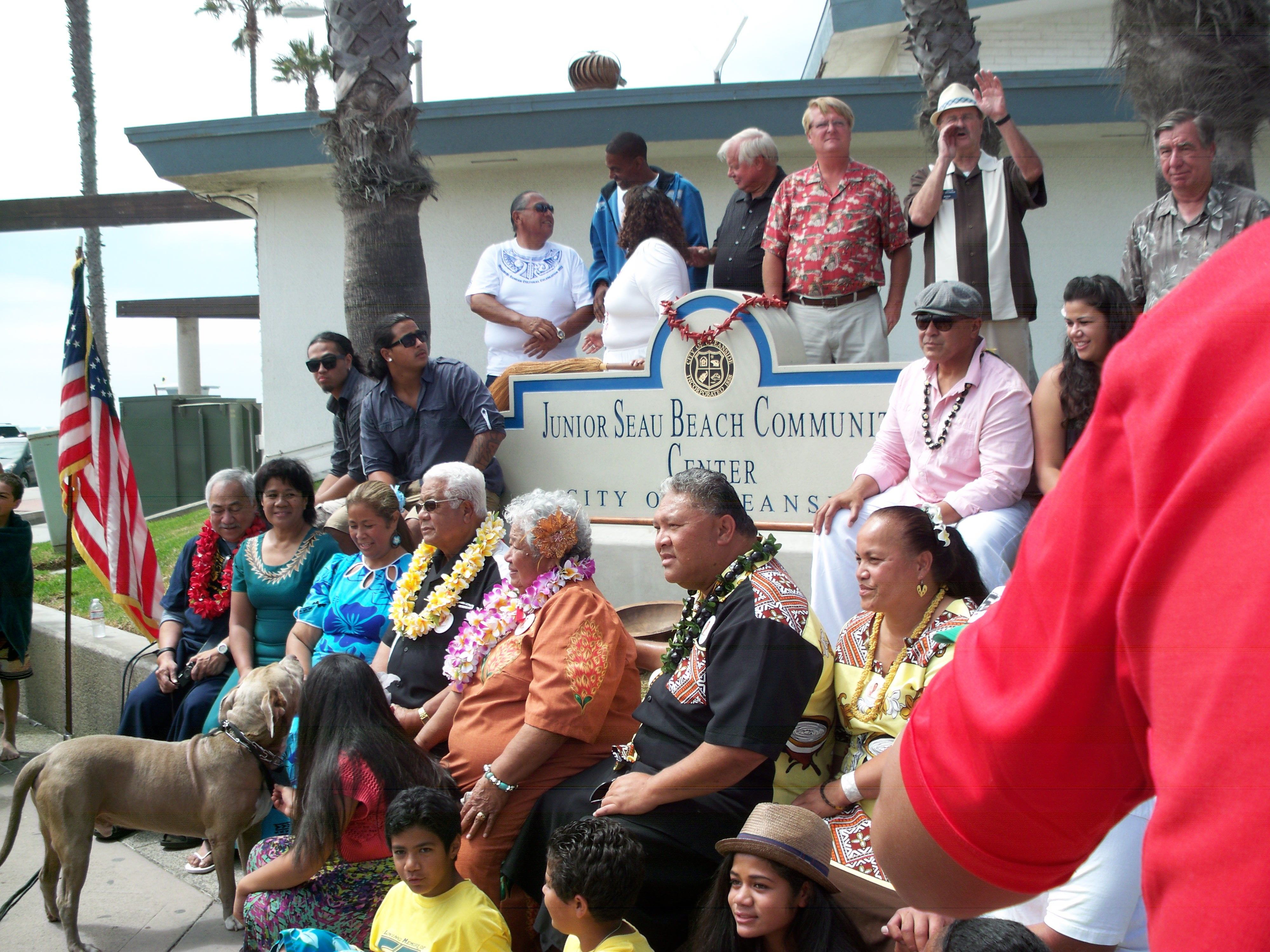 Local Elected Officials and the family of the late Junior Seau surround a sign for the newly-dedicated Junior Seau Beach Community Center.